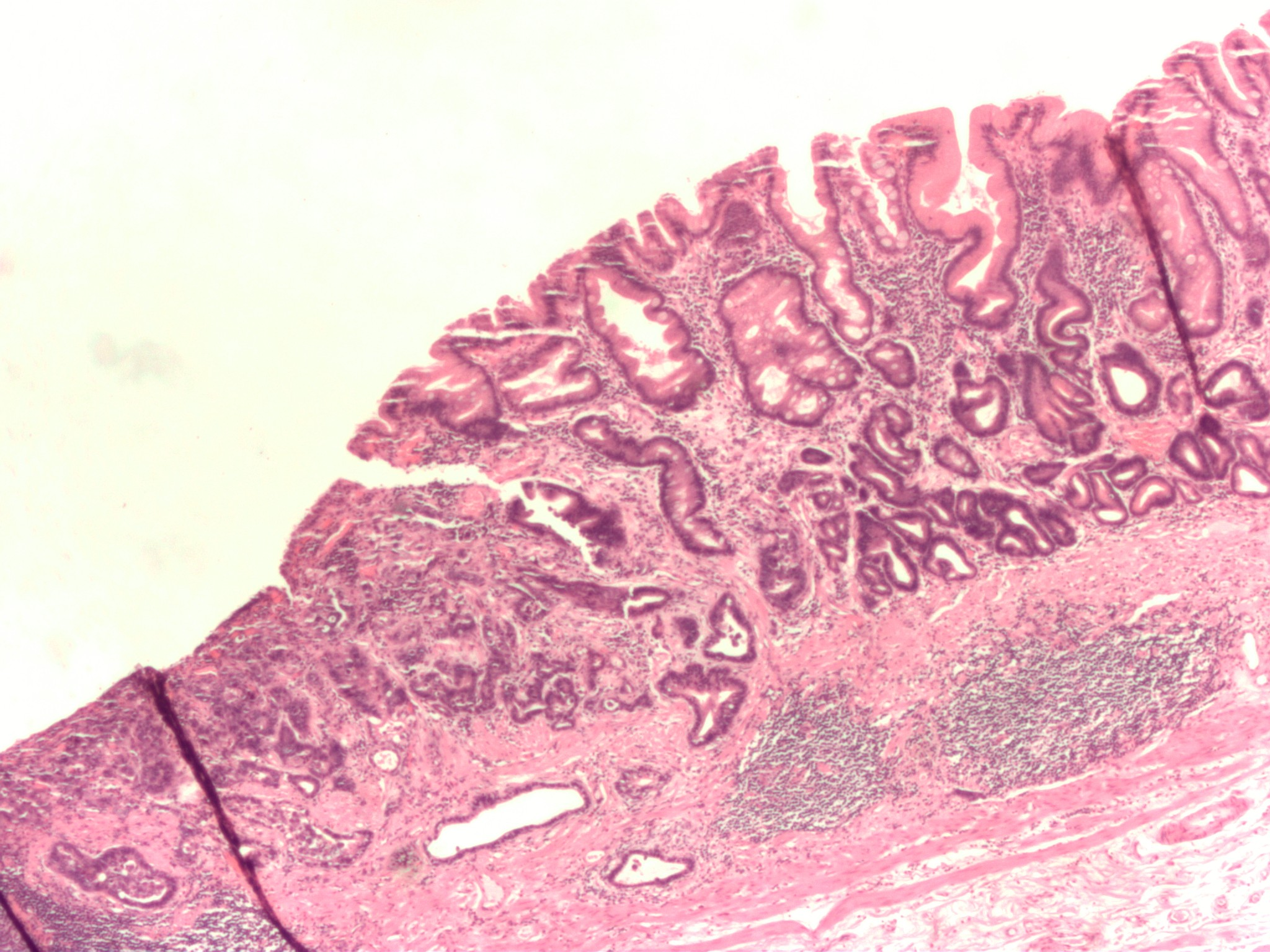 General audience: stomach cancer. Medical audience: gastric adenocarcinoma - with poor-moderate differentiation (left part of image + spreading beneath non-malignant tissue), prominent intestinal metaplasia is present -- characterized by the presence of goblet cells (this is considered a risk factor for the development of adenocarcinoma), some normal foveolar epithelium is present. Gastric antrum (no parietal cells are seen, epithelium starting to form finger-like projections as seen in the intestine (villi)). H&E stain. Micrograph.